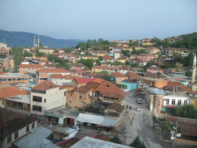 The center of Peshkopi, Albania, as seen from the road into the neighborhood of Dobrovë.